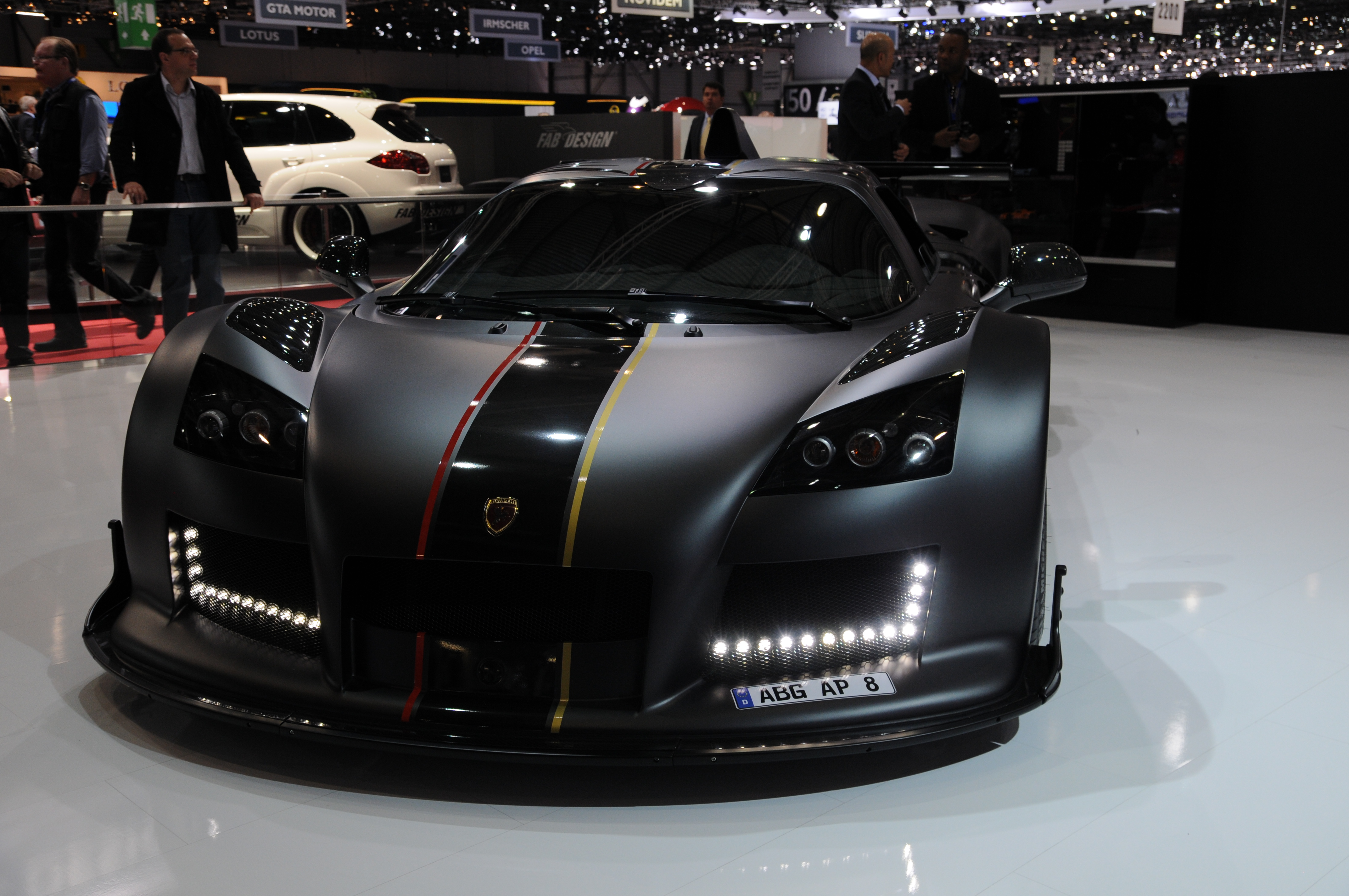 Geneva Motor Show 2012 (photos taken on the second press day)